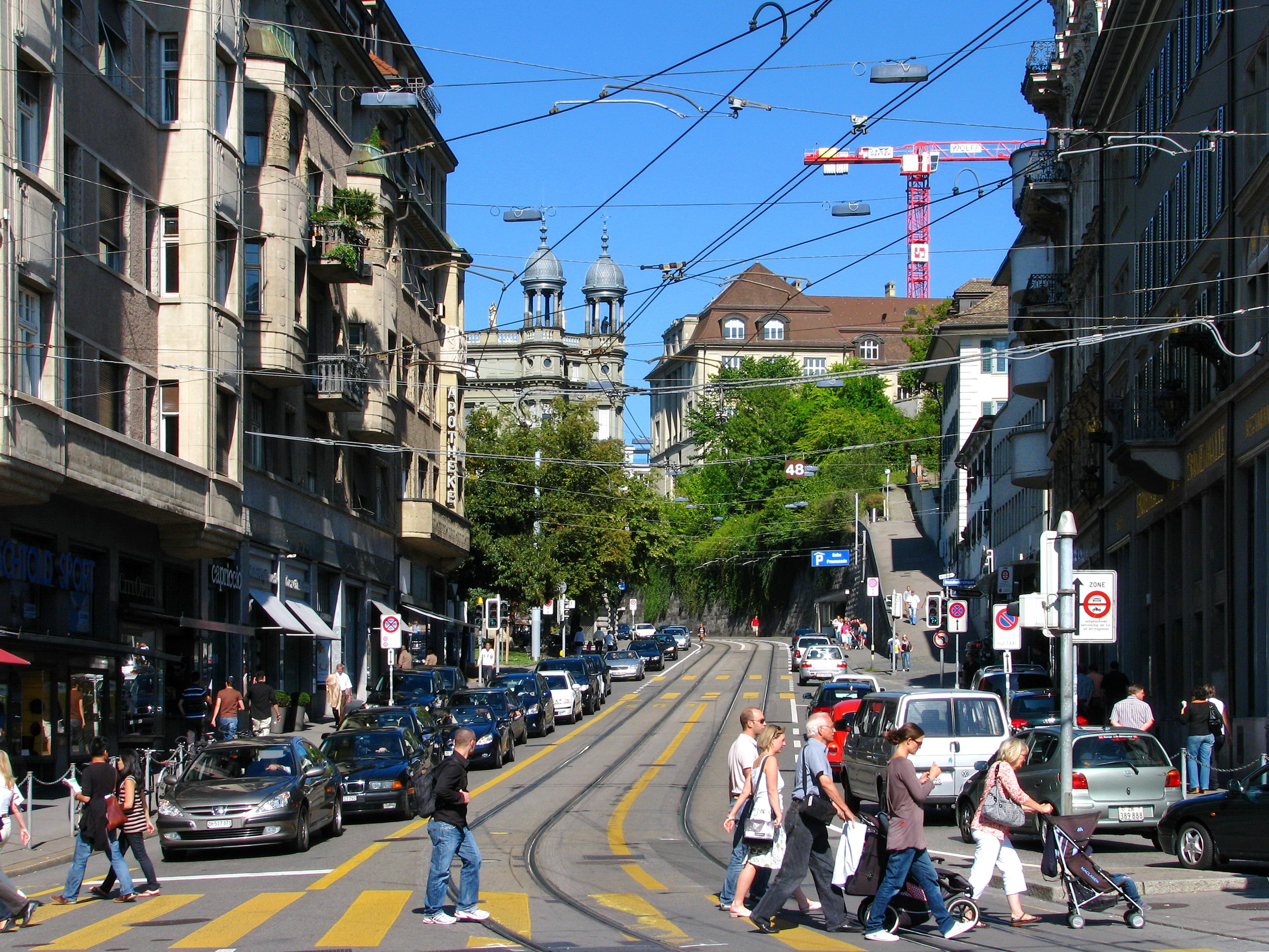 Rämistrasse as seen from Bellevue in Zürich (Switzerland), Restaurant Kronenhalle to the right, Hohe Promenade in the background to the right.